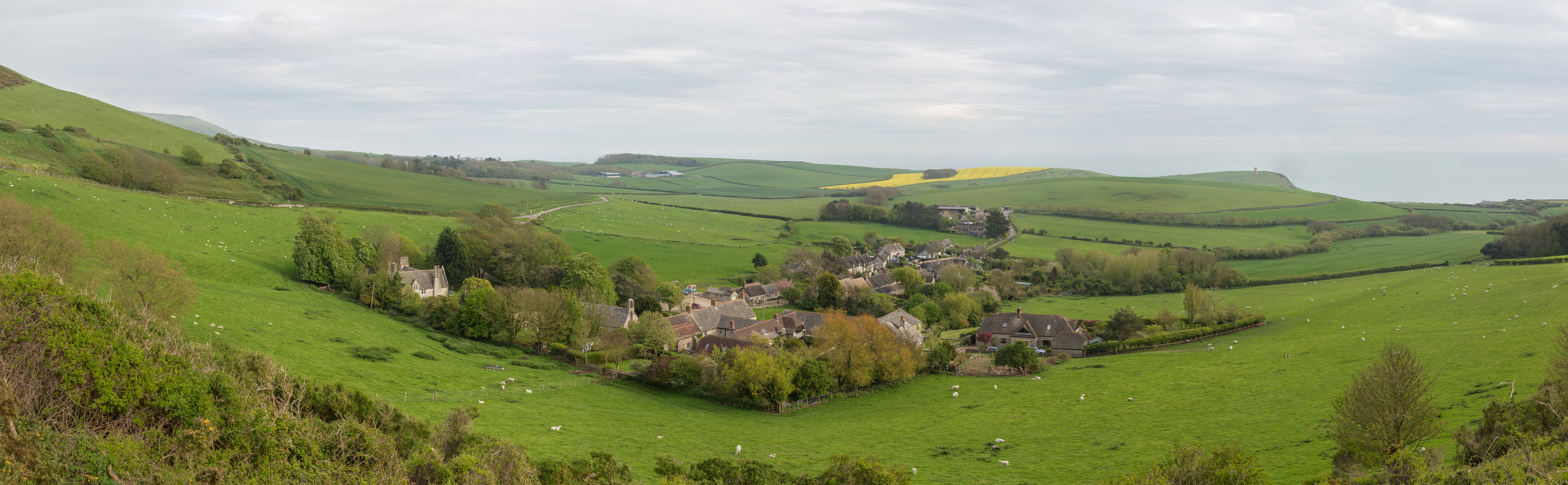 A panoramic view of the village of Kimmeridge in Dorset, England, UK.